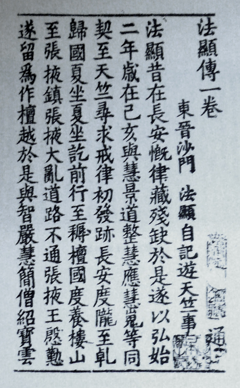 12th-century woodblock print, 1st page of the Travels of Faxian (Record of the Buddhist Countries). The first sentences read: "In Chang'an, Faxian was distressed that the Vinaya collections was incomplete, so in the 2nd year of Hóngshǐ, or jǐ-​hài in the sexagenary cycle [year 399/400], he agreed with Huijing, Daozheng, Huiying and Huiwéi to go seek out more of the Vinaya in India.